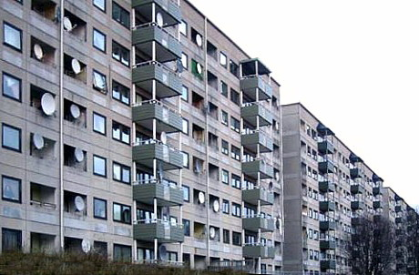 This is a "concrete house" of Hammarkullen in Angered foto by the user: fakatativa